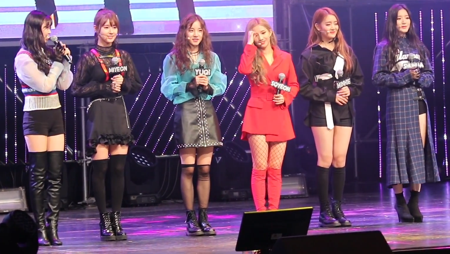 G-Idle at the Blue Square theater in Yongsan, Seoul, promoting their debut album I Am